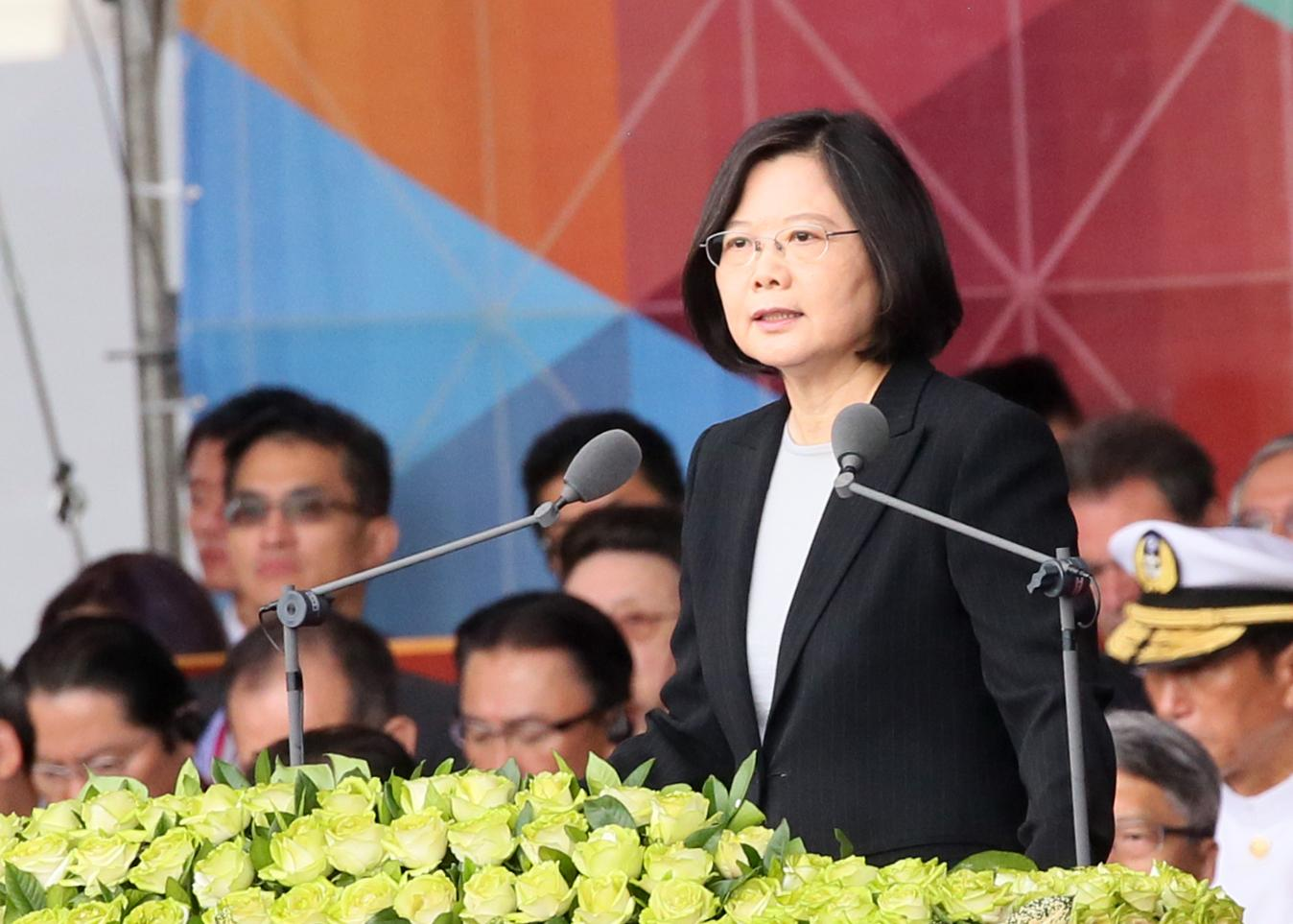 President Tsai delivers the 2016 National Day Address.